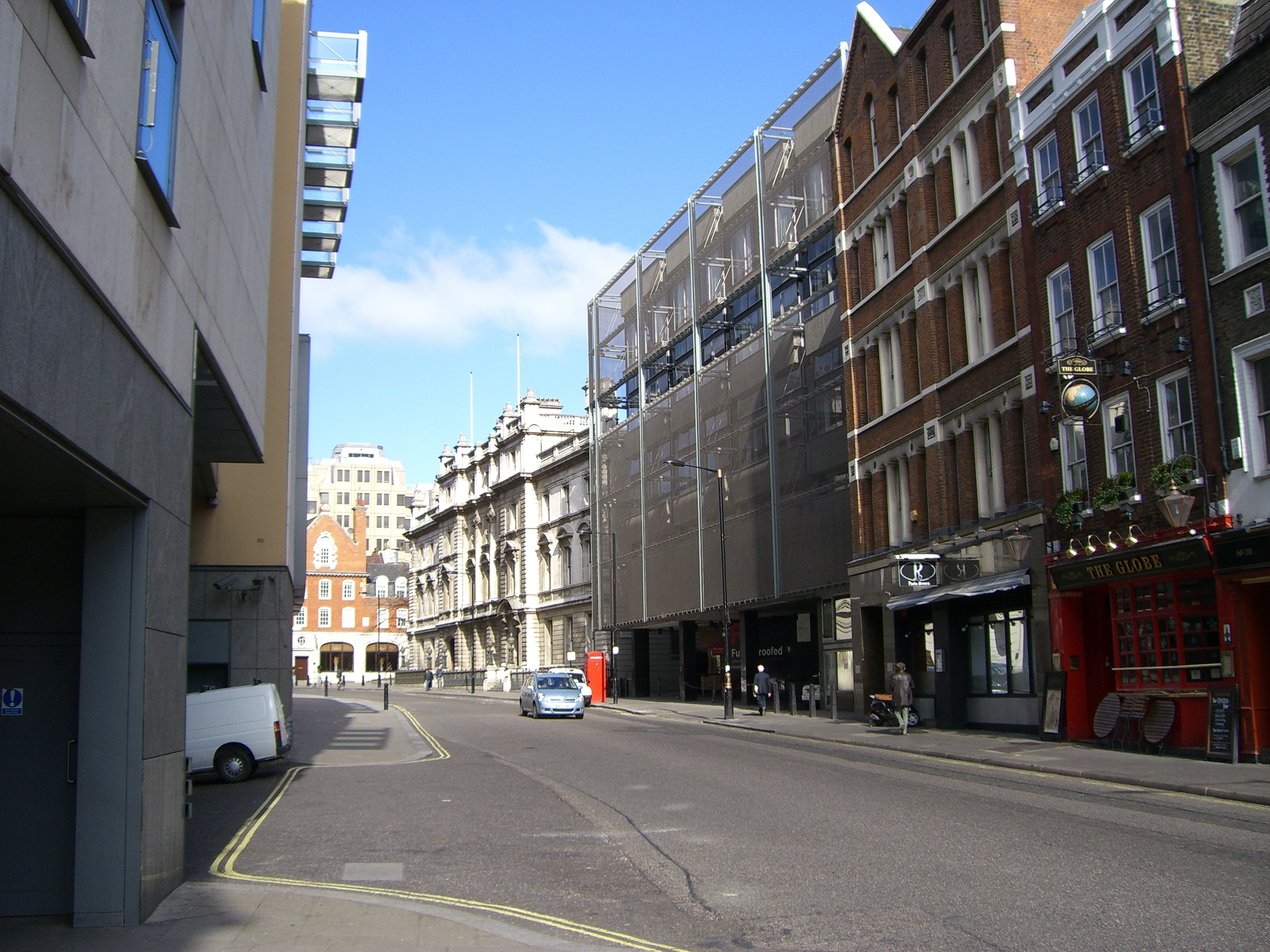 Bow Street, looking north towards Long Acre. Photo taken by User:Edward on 19 March 2006 with a Casio EX-S600.